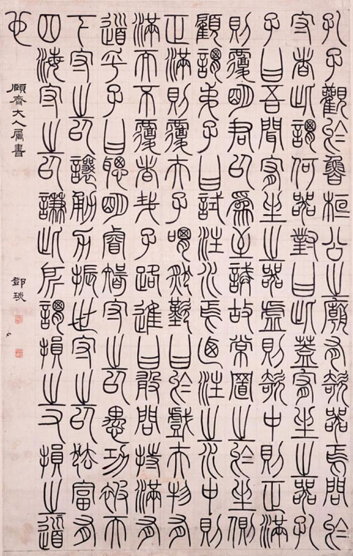 Ancient prose from the Xunzi, in seal script, before 1796, by Deng Shiru (1743—1805). Hanging scroll, ink on paper.